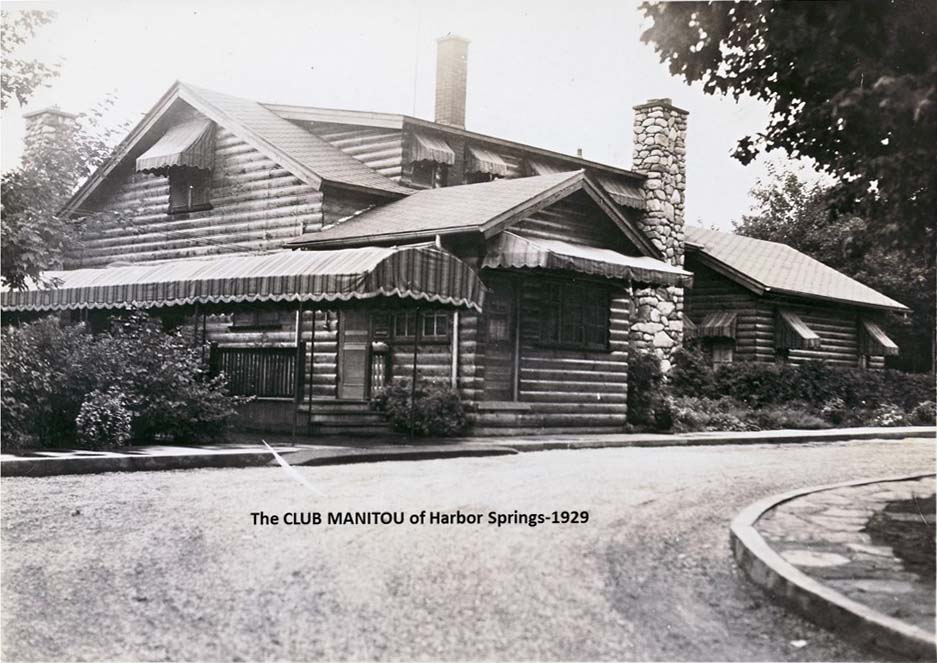 The infamous Club Manitou of Harbor Springs, Michigan was a mid-west gambler's paradise from 1929-1952